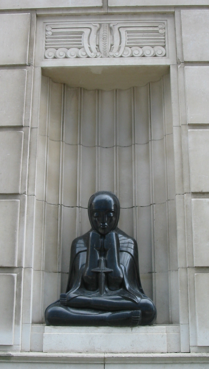 George's Dock Ventilation and Control Station, Pier Head, Liverpool, England. Offices and ventilation shaft for the Queensway Tunnel. Architect Herbert James Rowse, 1932.